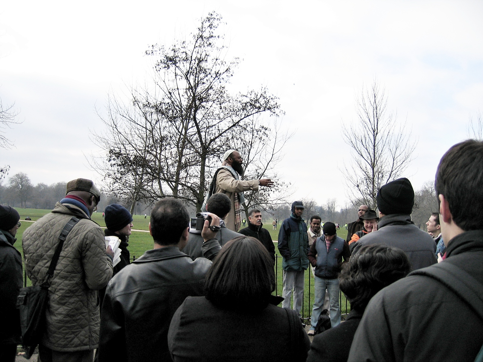 Muslim preacher at Speakers' Corner in Hyde Park, London